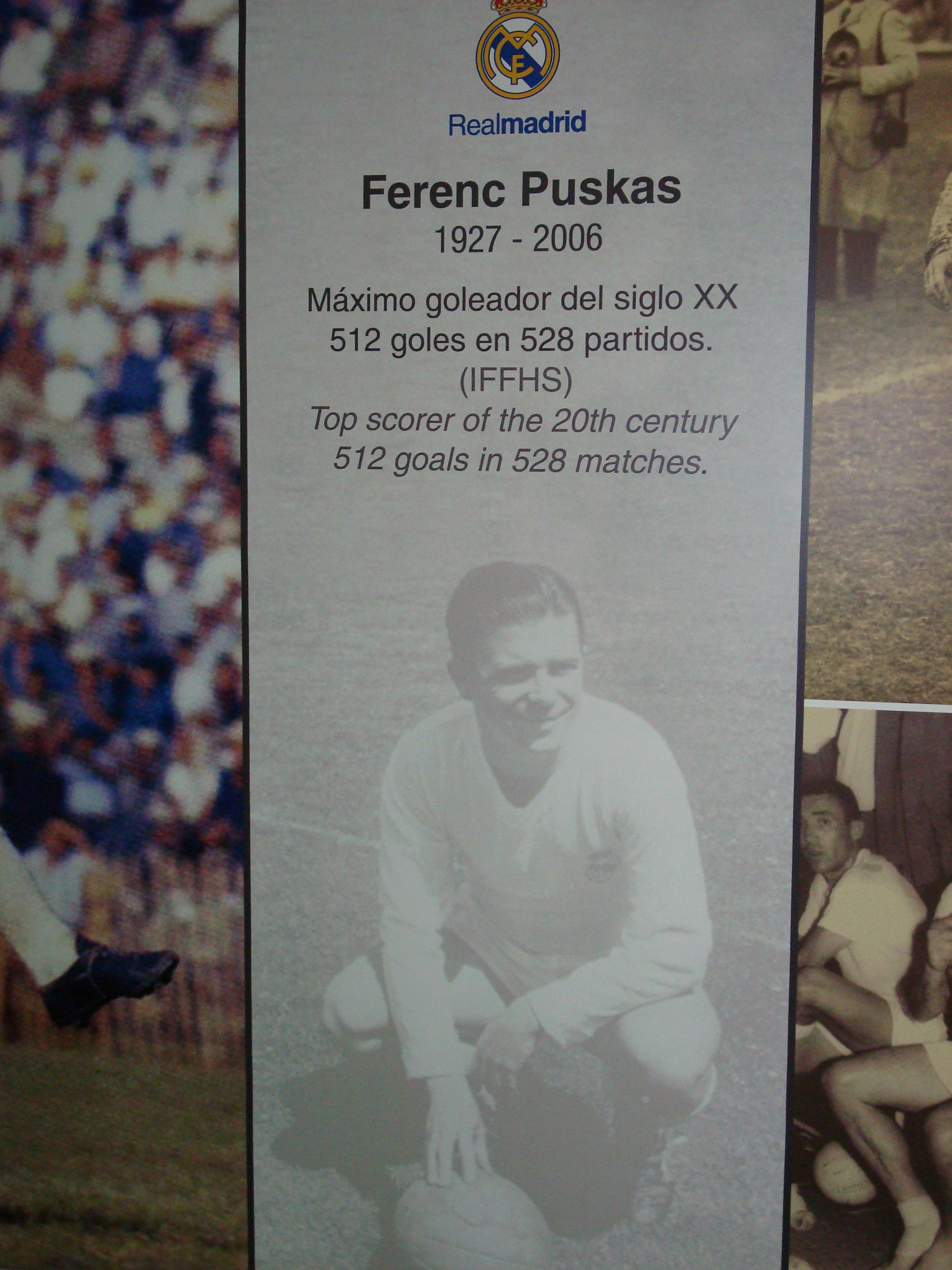 Ferenc Puskas in Real Madrids hall of fame